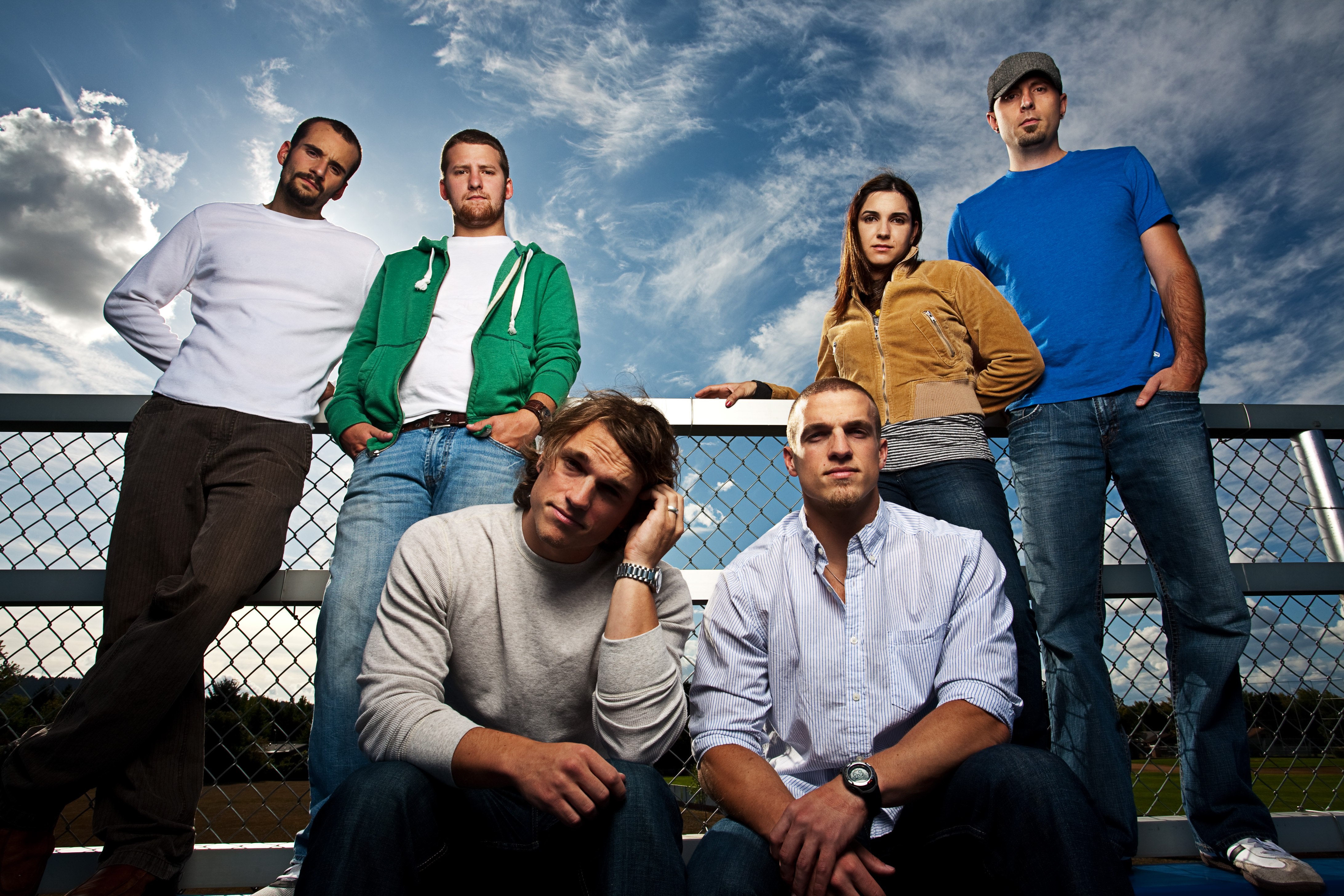 Caleb and Sol Band Photo